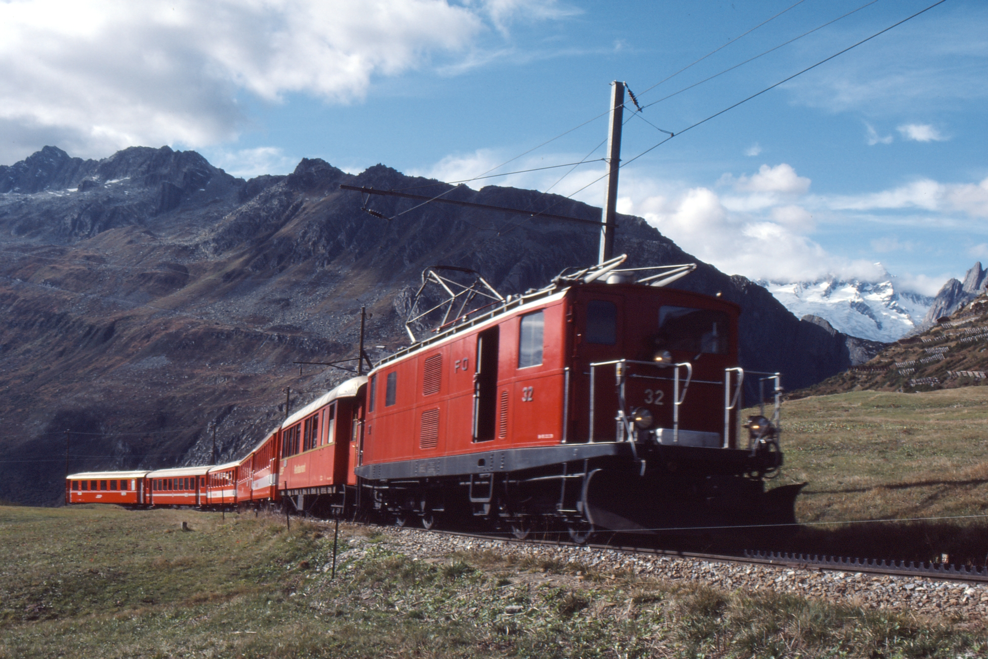 Historically HGe 4/4 32 with the Glacier Express